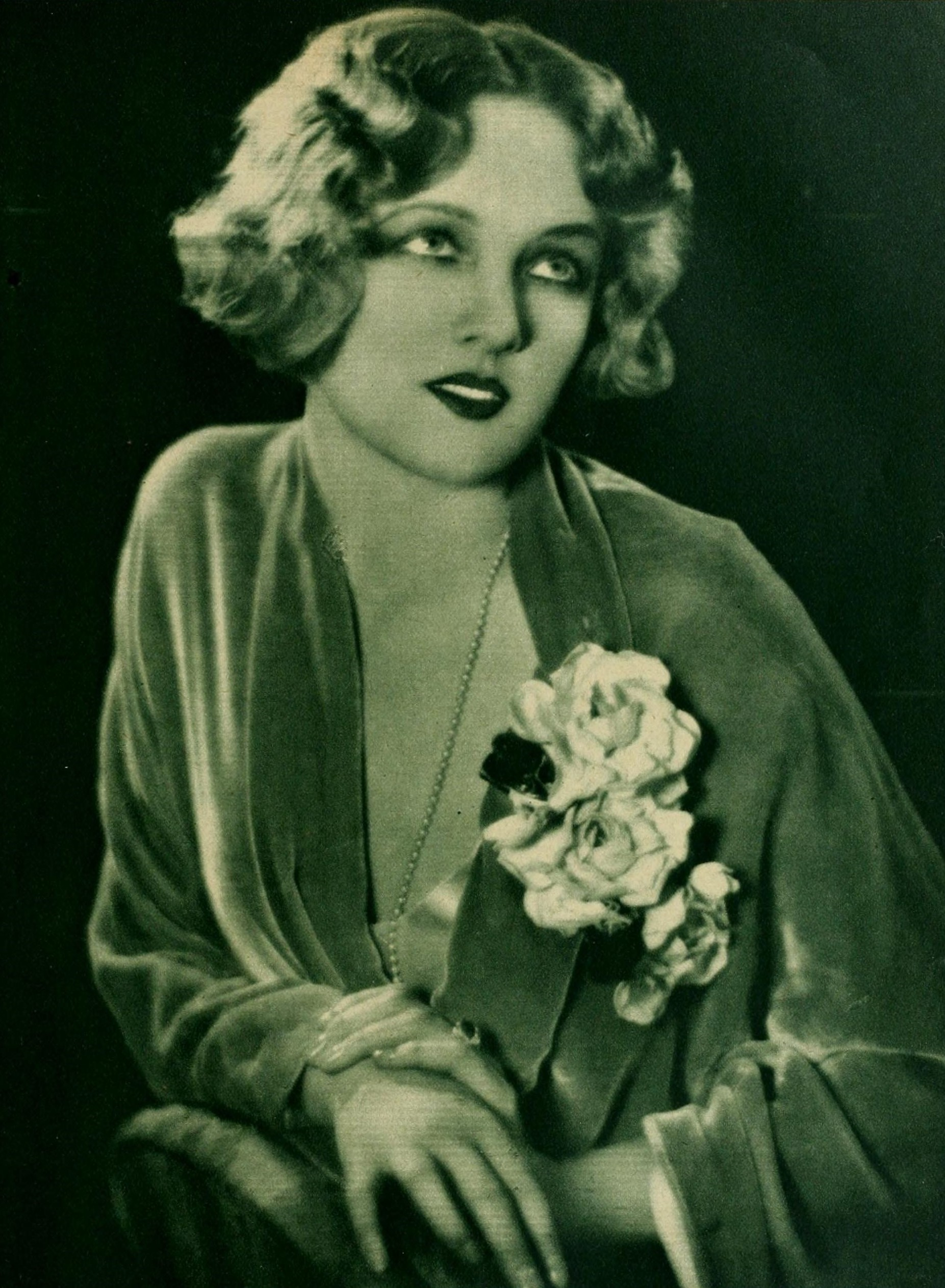 Virginia Cherrill in Photoplay, September 1929, photographed by Lansing Brown.